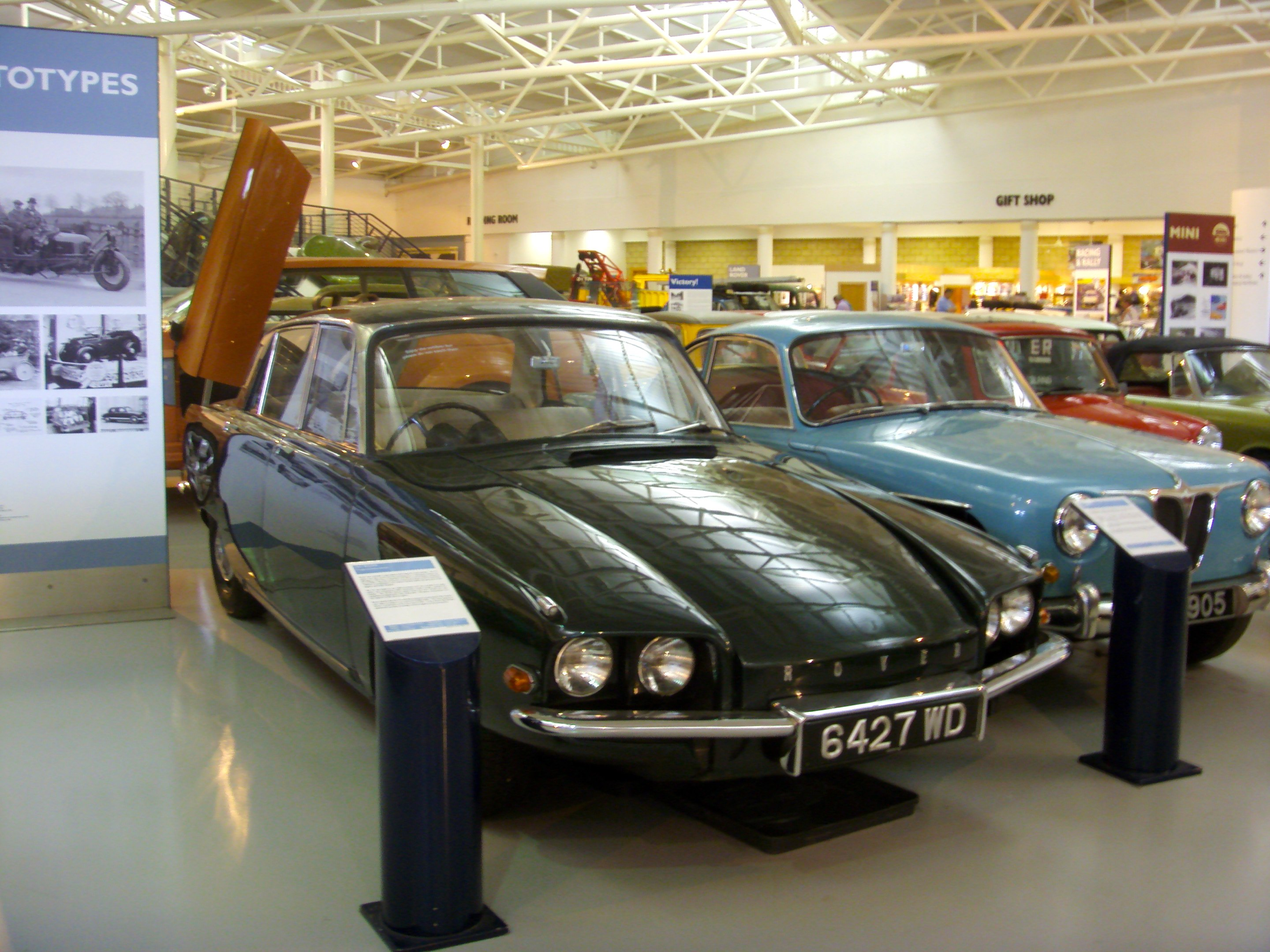 1961 Rover T4 Gas Turbine Prototype